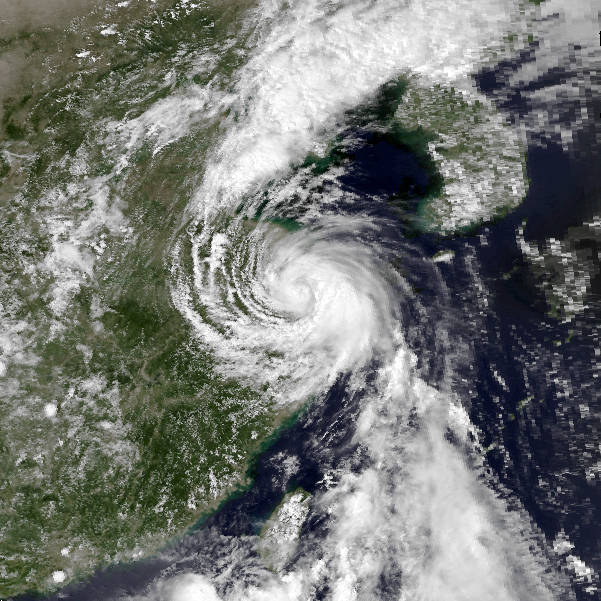 Typhoon Mamie on August 18, 1985. At the time Mamie had winds of 66.1 knts (76.1 mph, 122.5 kph), 1-min sustained, and a pressure of 982 mbar. Mamie was about 19 miles away from land and 4 hours away from landfall. This image was taken by the NOAA-9 Satellite.